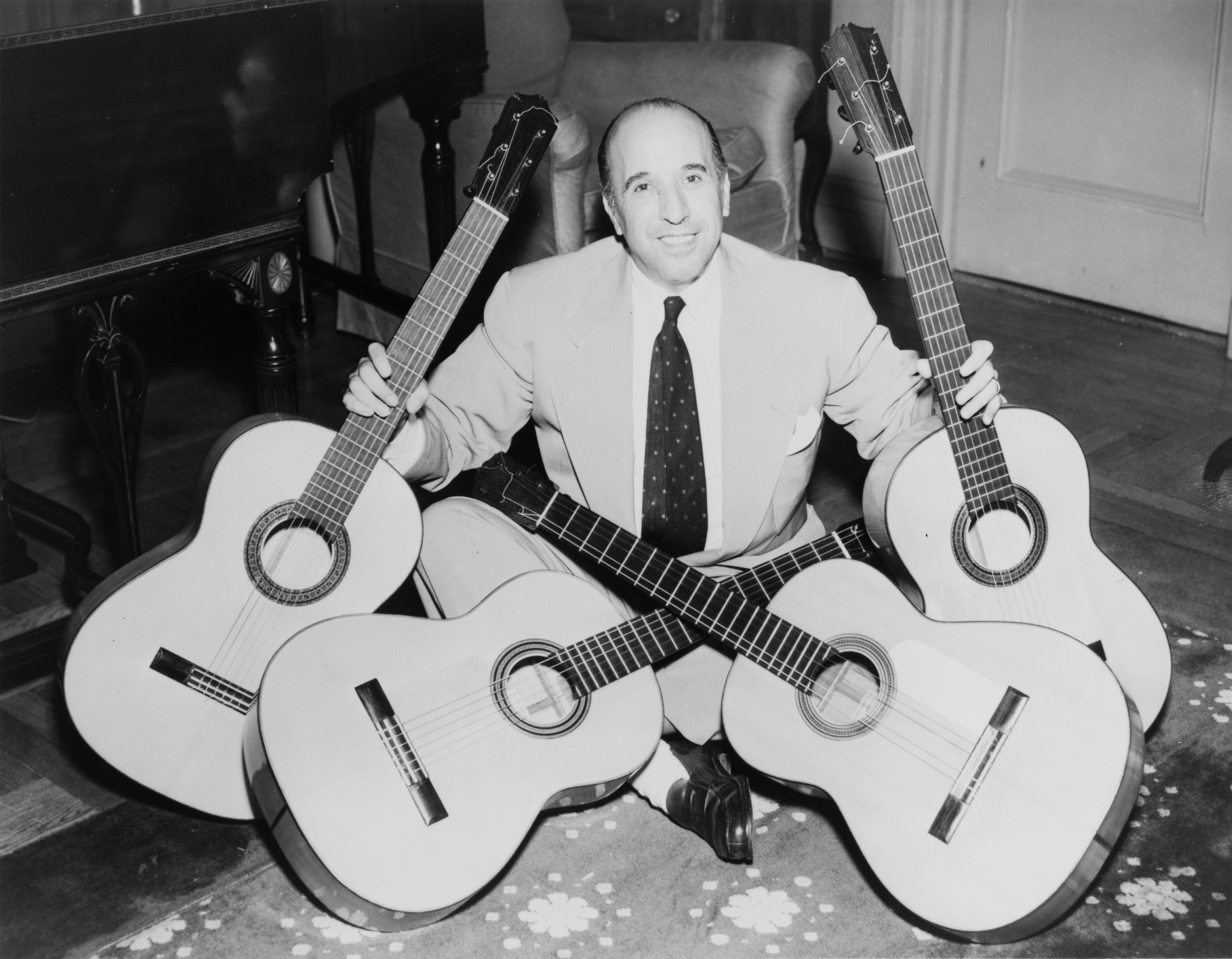 Carlos Montoya, seated on floor, with four guitars